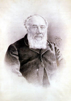 Numa Guilhou Rive (1892)